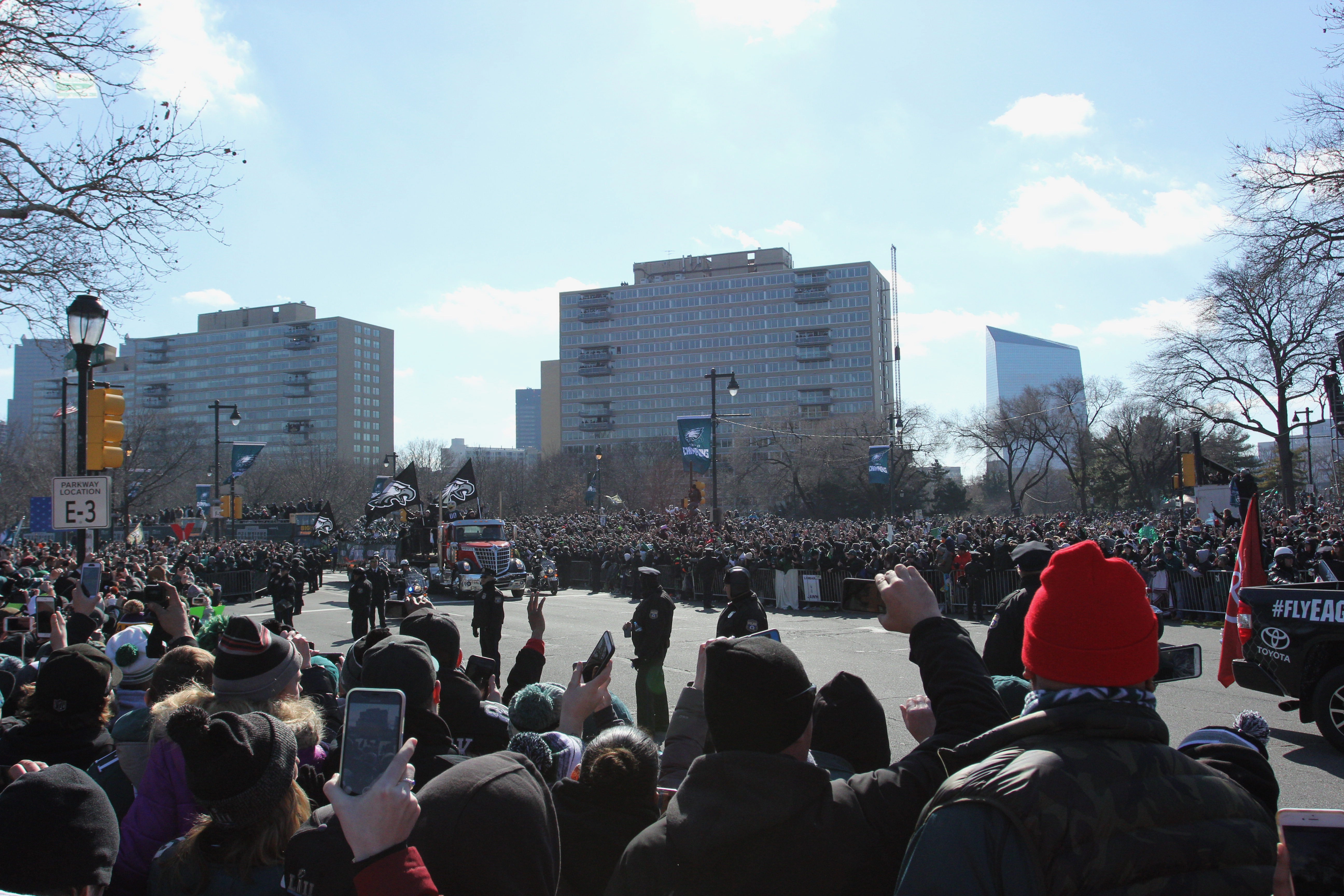 Fans flood the parkway for the Eagles Super Bowl Parade